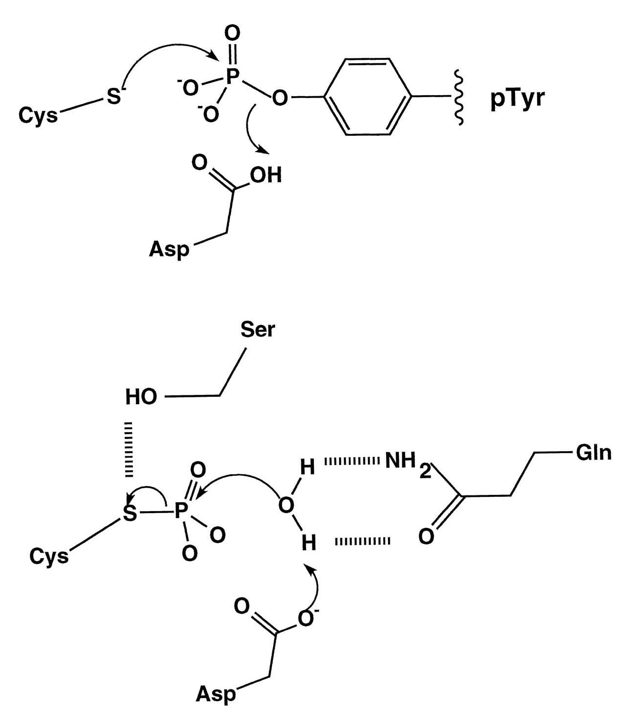 Made by me, adapted from published work.